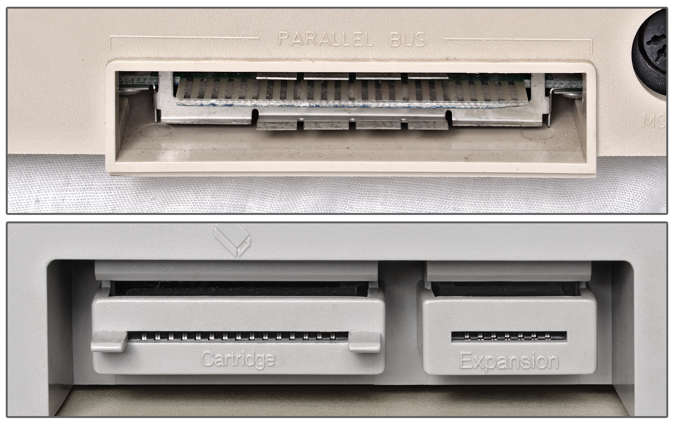 Atari XL Parallel Bus Interface (PBI) from 800XL (upper image) and XE Enhanced Cartridge Interface from 130XE (lower image).